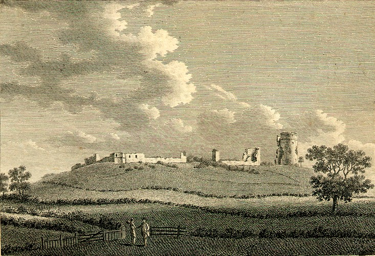 Engraving of Hadleigh Castle, Essex, published by S. Hooper in 1783-11-20. The print is a reworking of an earlier engraving made by D.L. 1772-10-01.